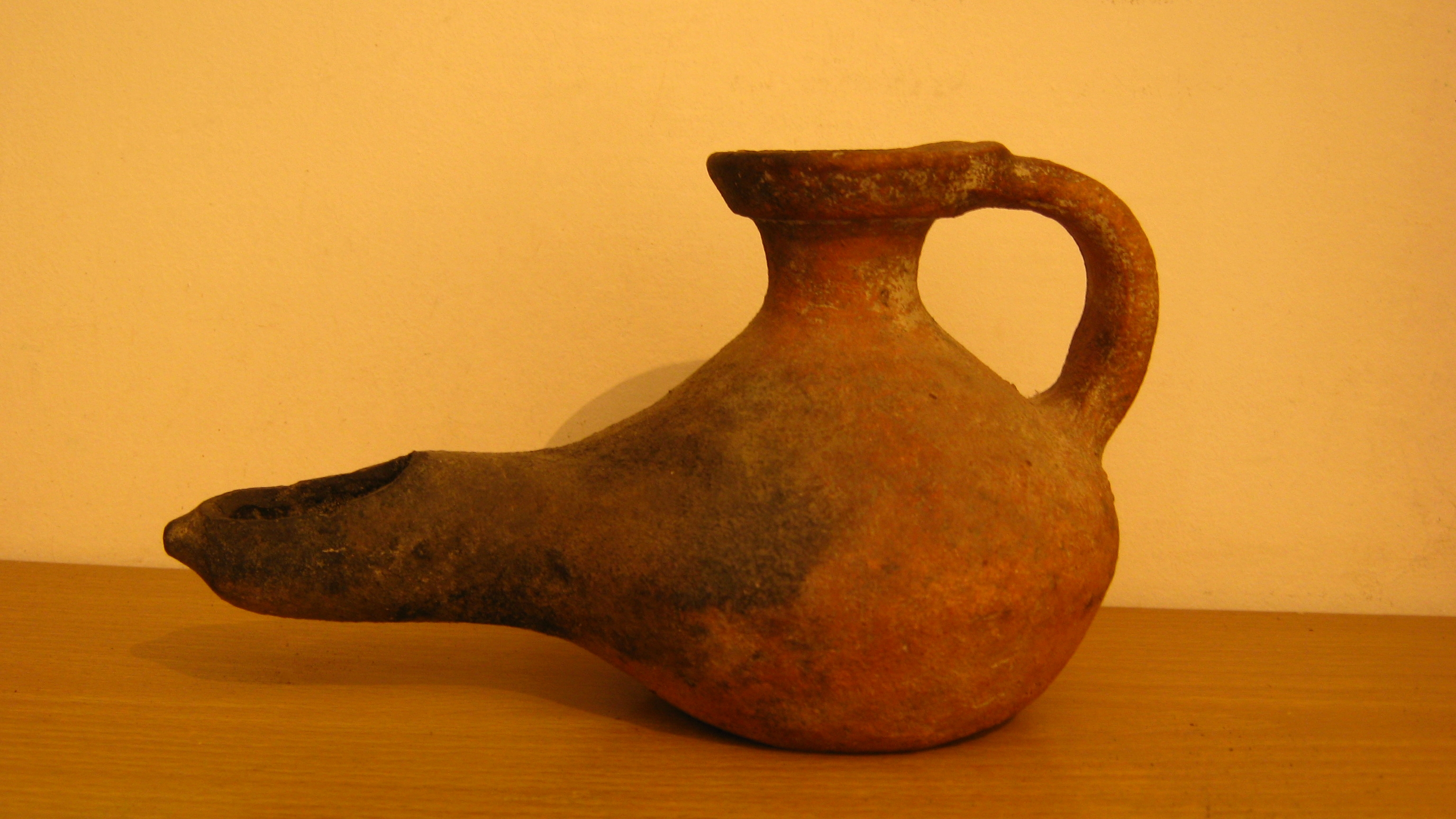 Salyan chiraq